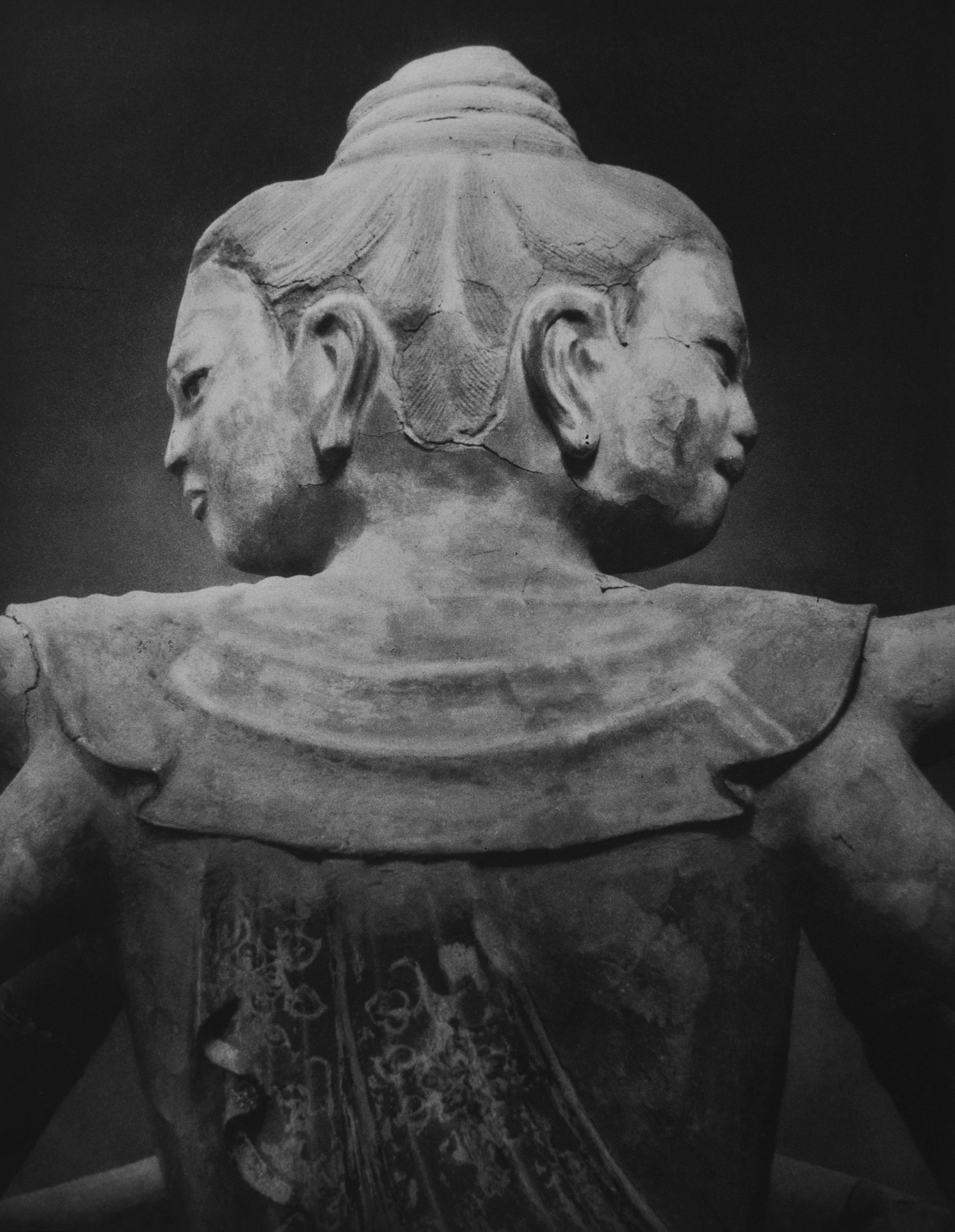 Kofukuji, Nara, Japan